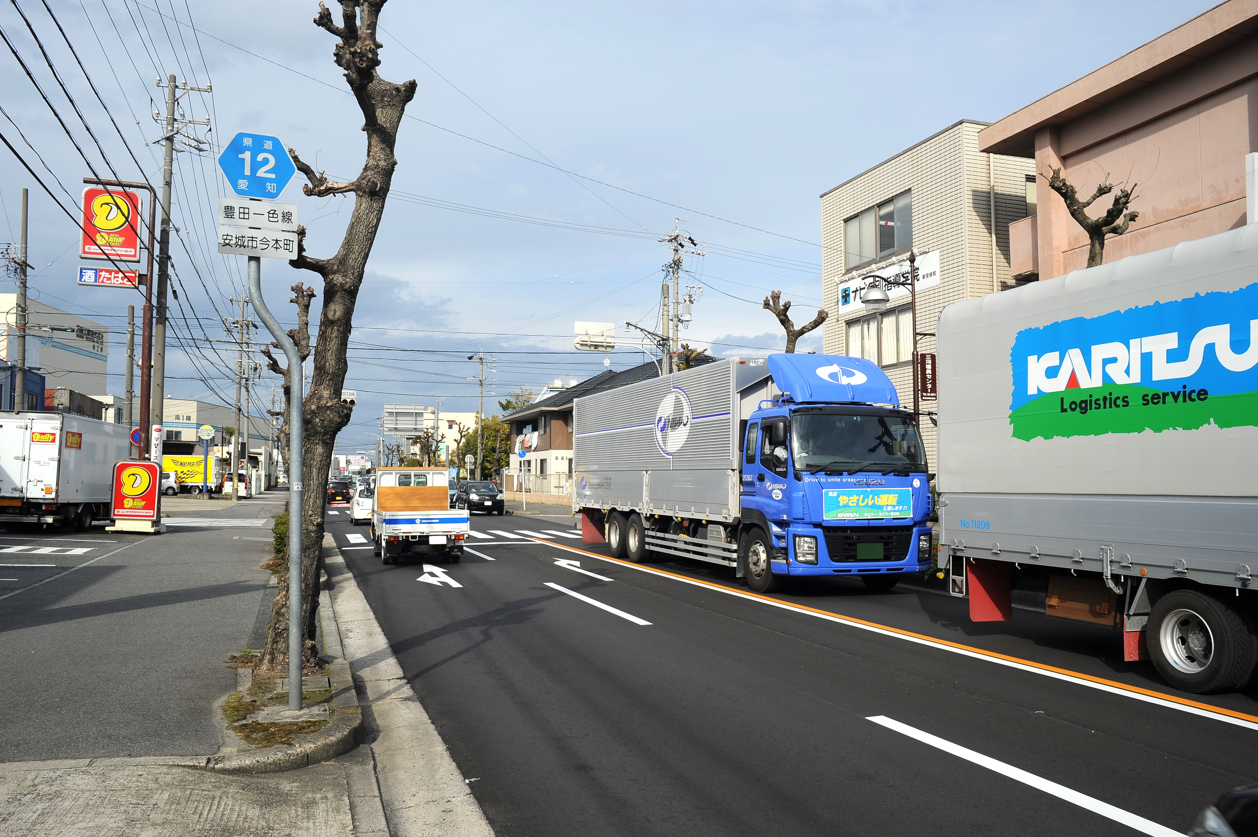 Aichi Prefectural Route 12, Anjo, Aichi